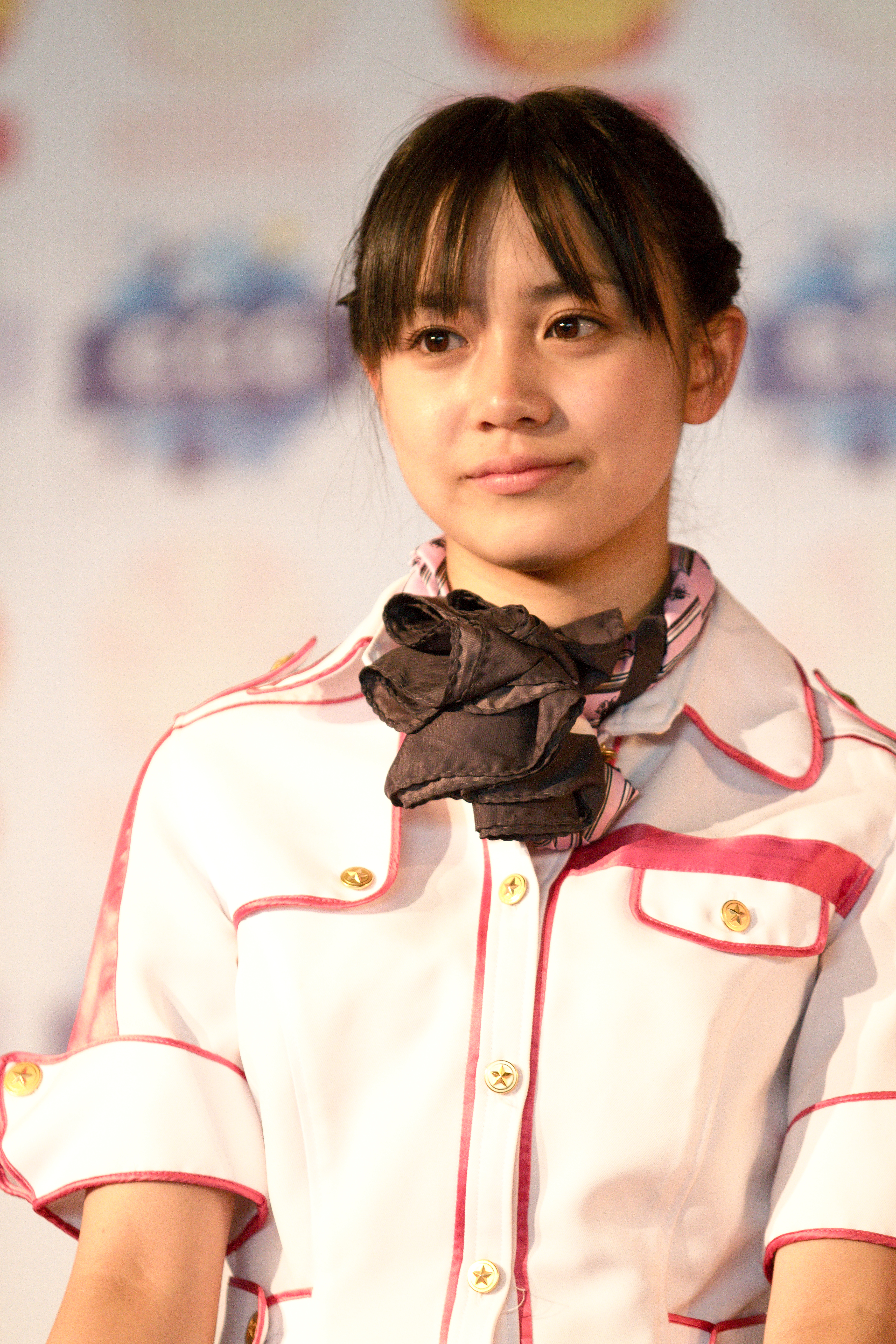 Questions and answers session with PASSPO ☆, followed by few songs live at Japan Expo 2011 (Paris, France).